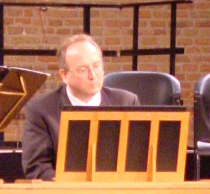 Stephen Stubbs at Leiden Pieterskerk